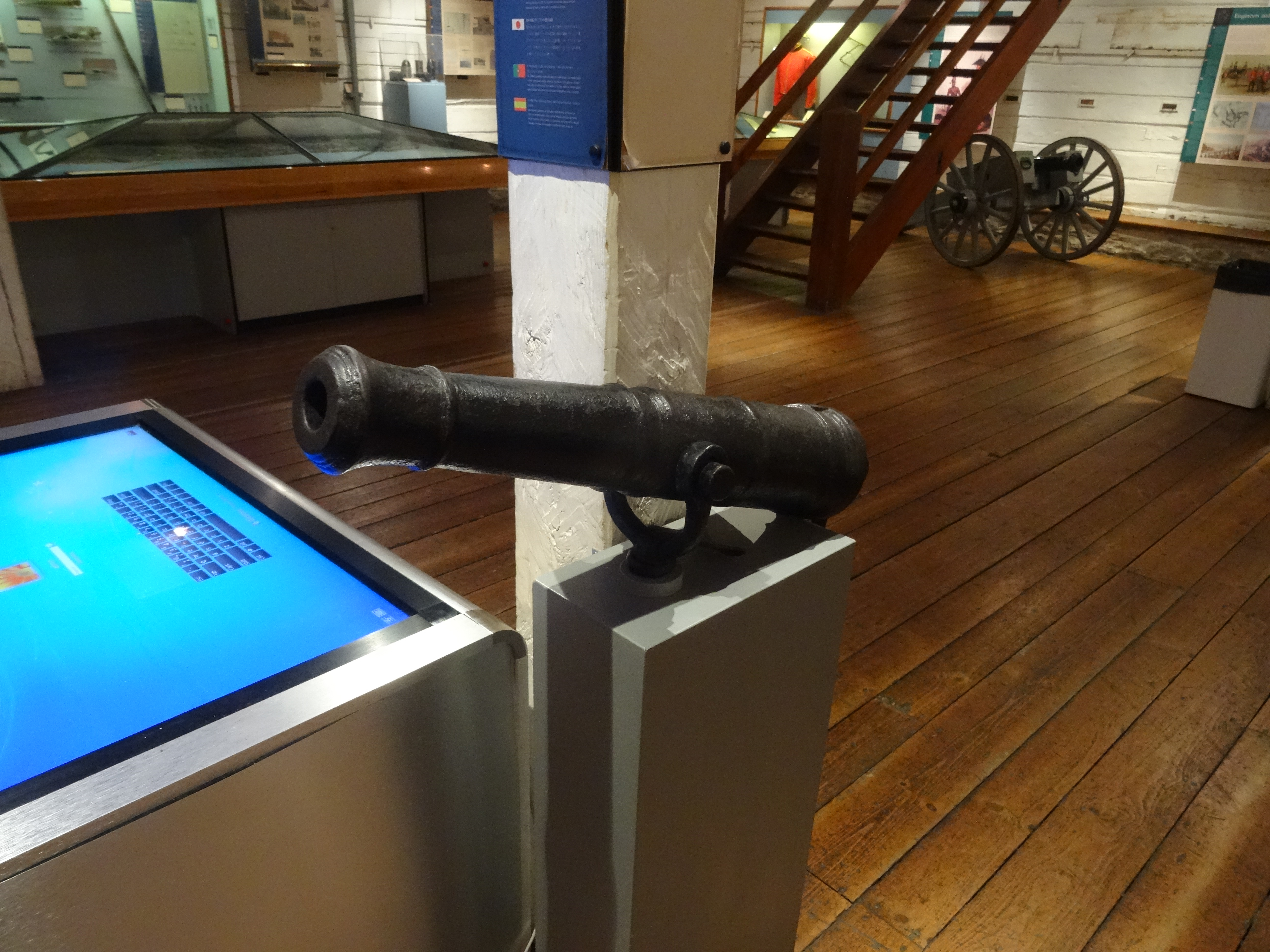 This 18th Century swivel gun at old Fort York, fires a half pound projectile, or a handful of musketballs, 2015 09 10 (1).JPG